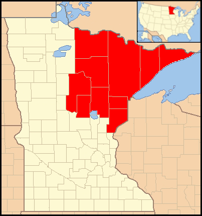 Map of the Catholic diocese of Duluth in the USA.